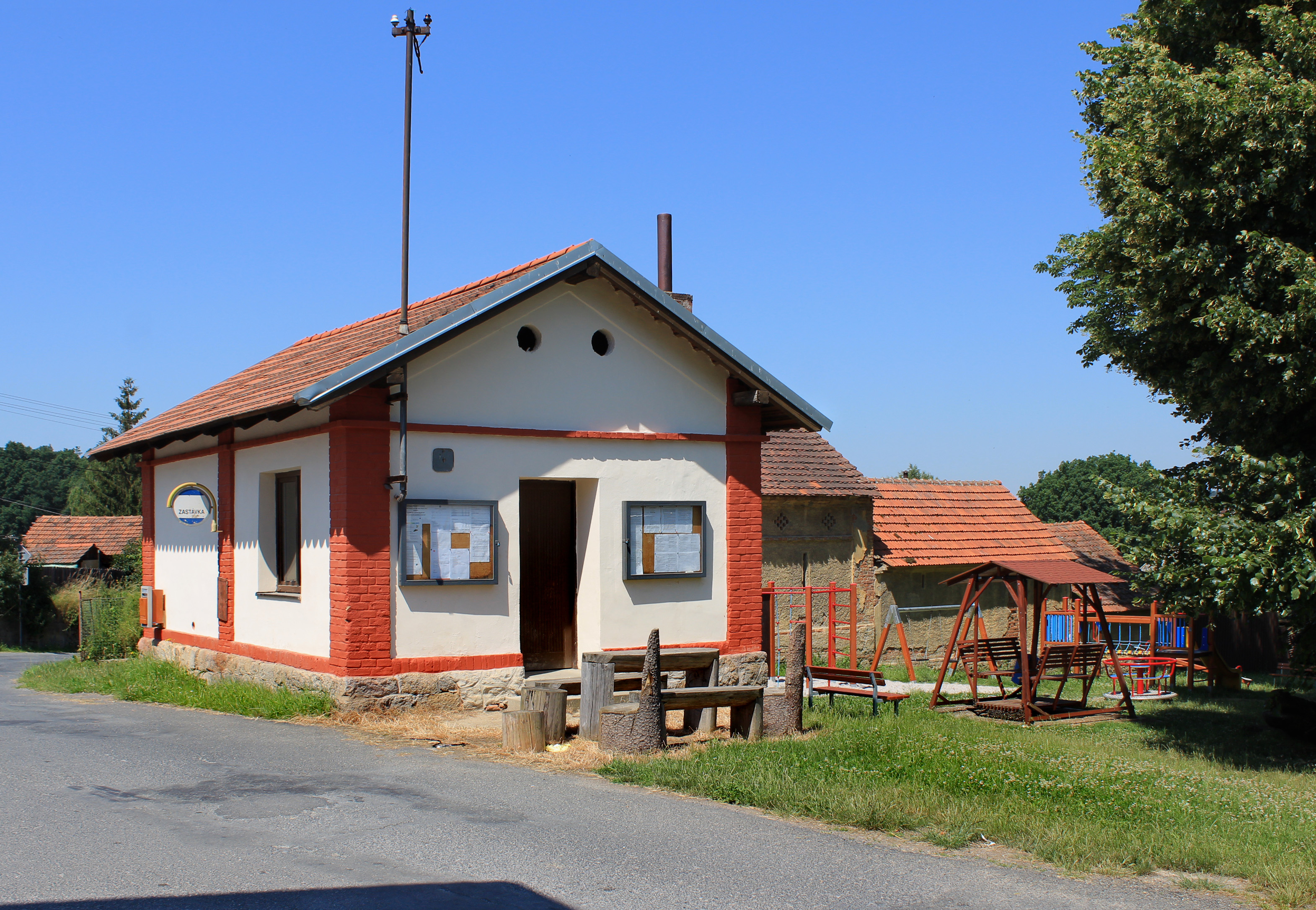 Old fire house in Bukovec, Czech Republic.